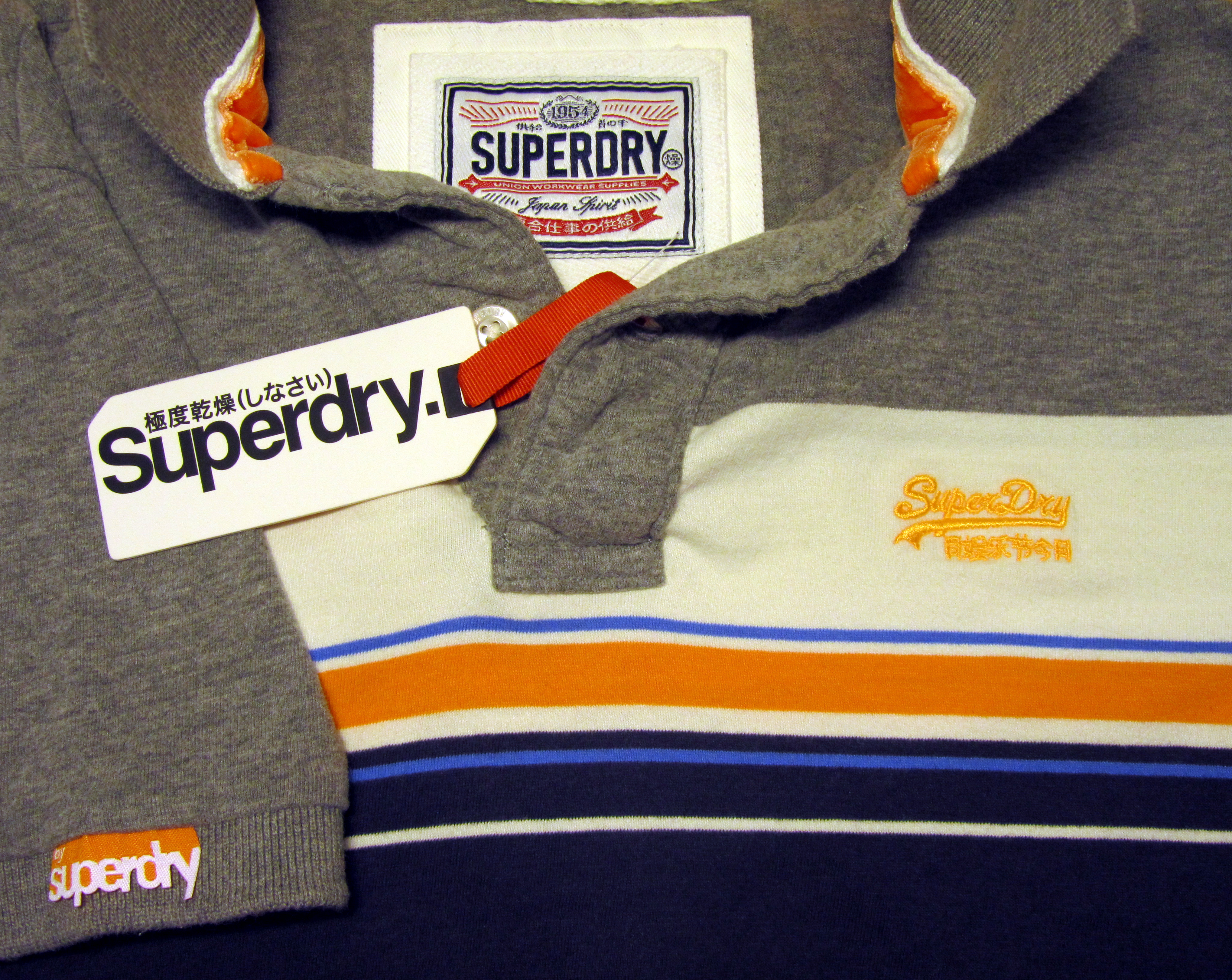 Poloshirt by Superdry with different versions of the Superdry logo.